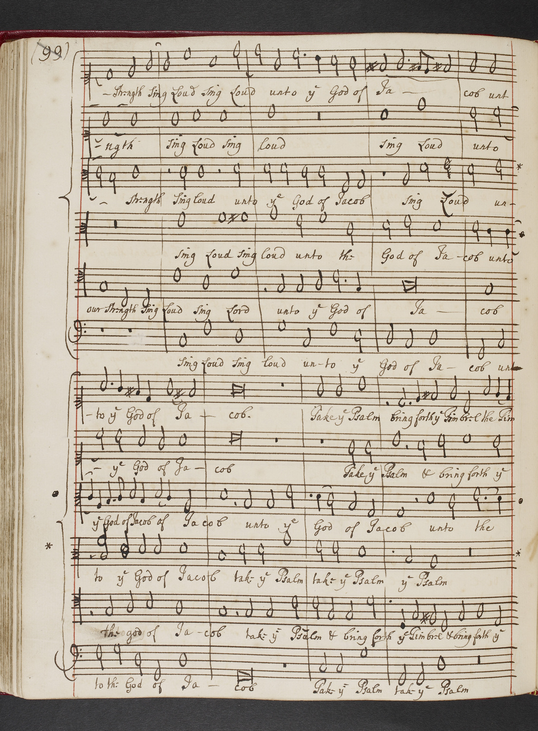 Sing joyfully unto God our strength. In the hand of Thomas Tudway.